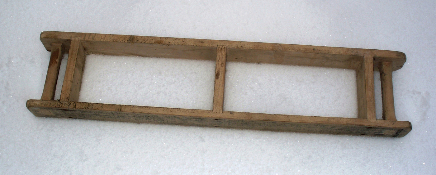 Brick mould.